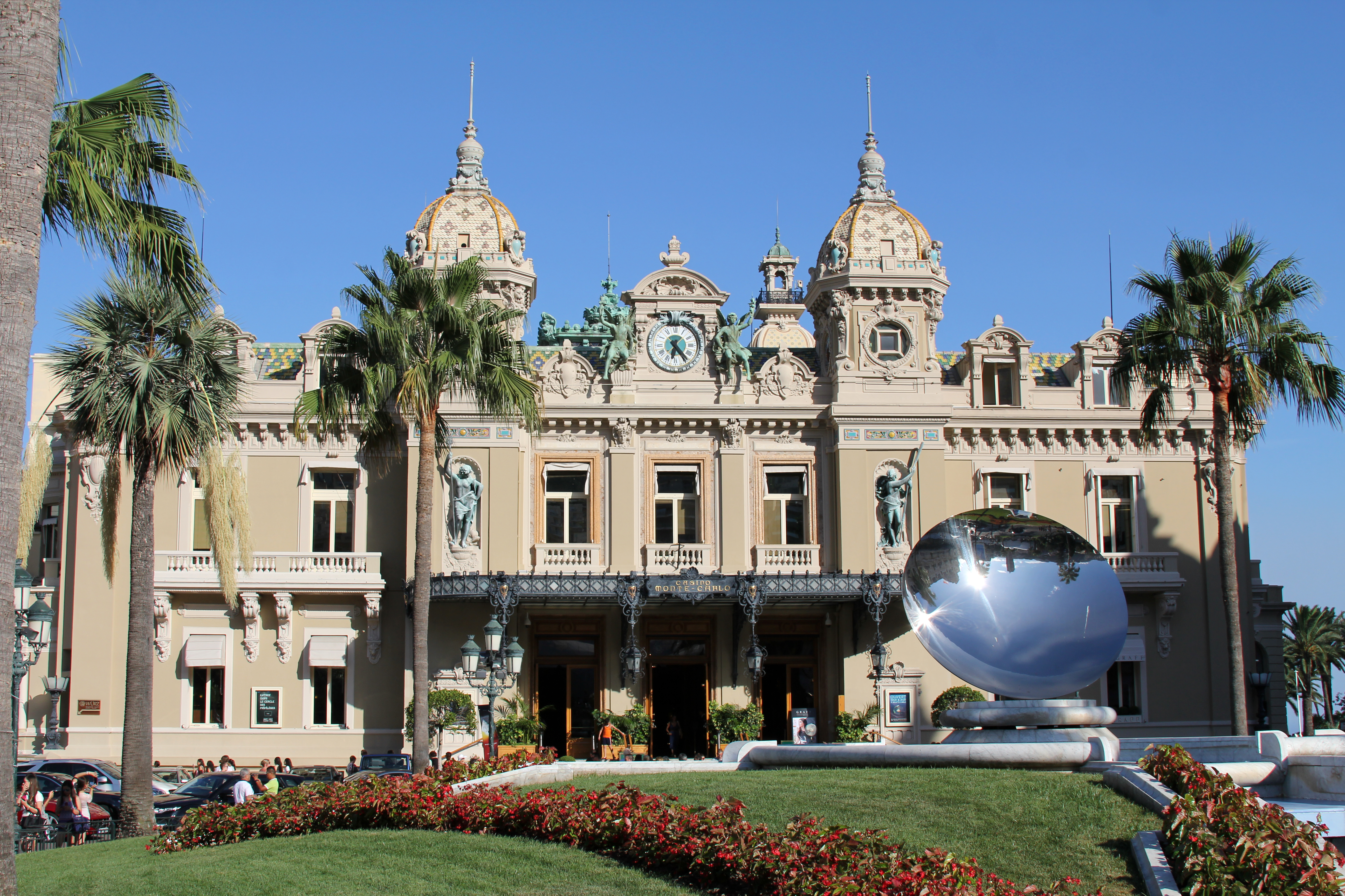 This is a picture of Monte-Carlo Casino in Monaco (2015).